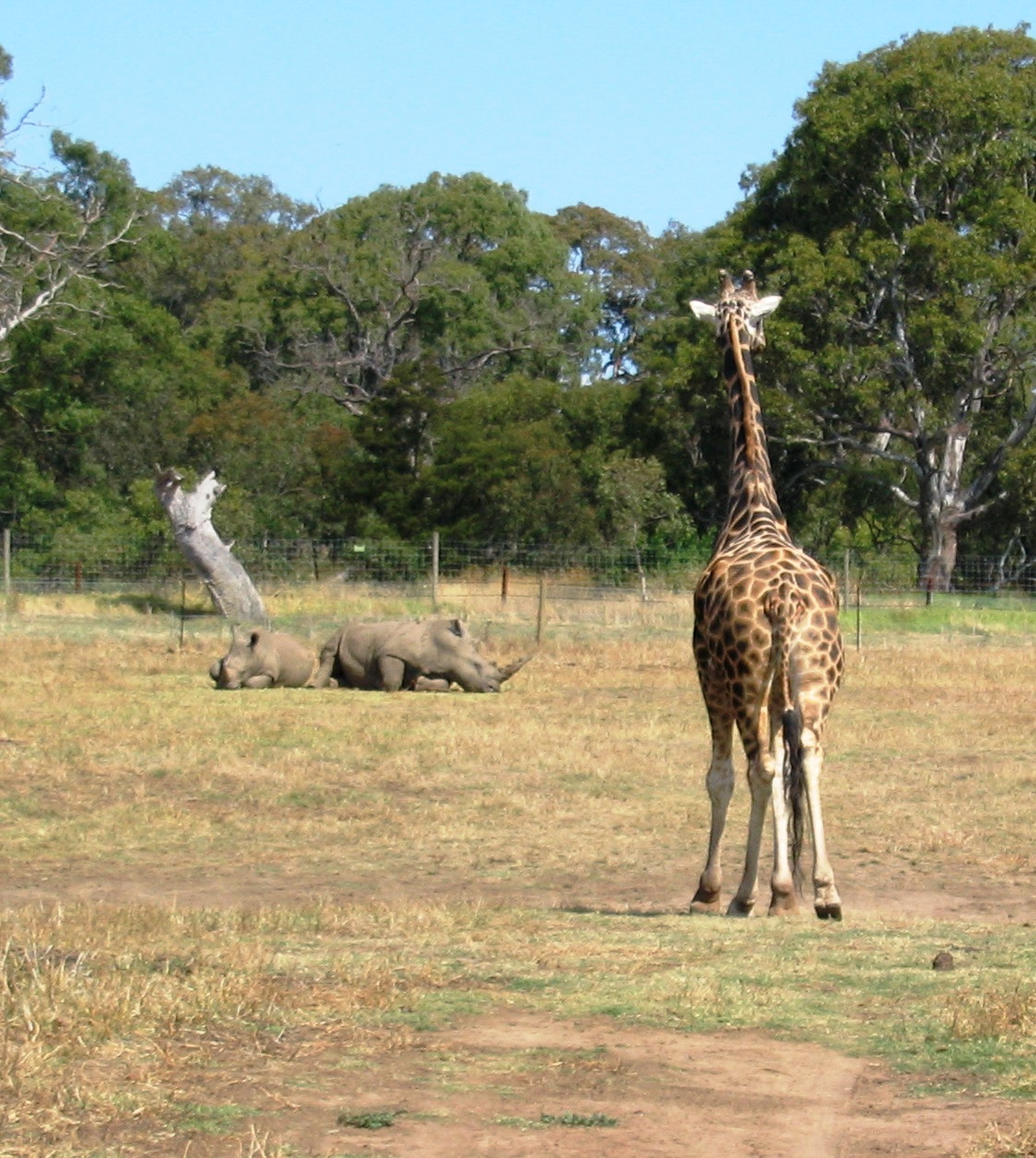 Ceratotherium simum, Giraffa camelopardalis, Werribee Open Range ZooMisc 914